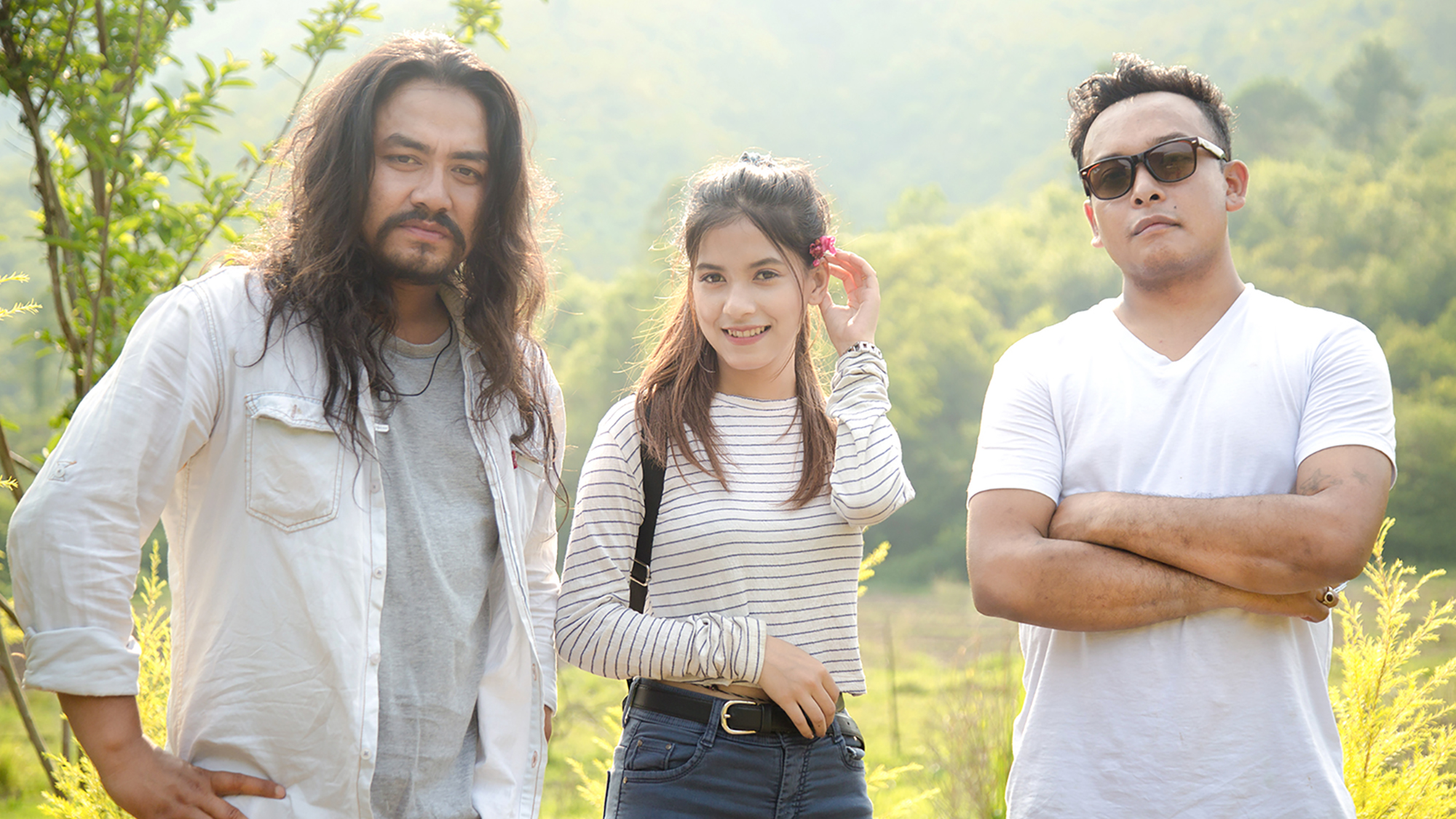 Texas, Prinalini Thingom and Edwin Haorokcham during the production of Tamna Tamna in Manipur, India. Photo taken by Ratan Sapam.